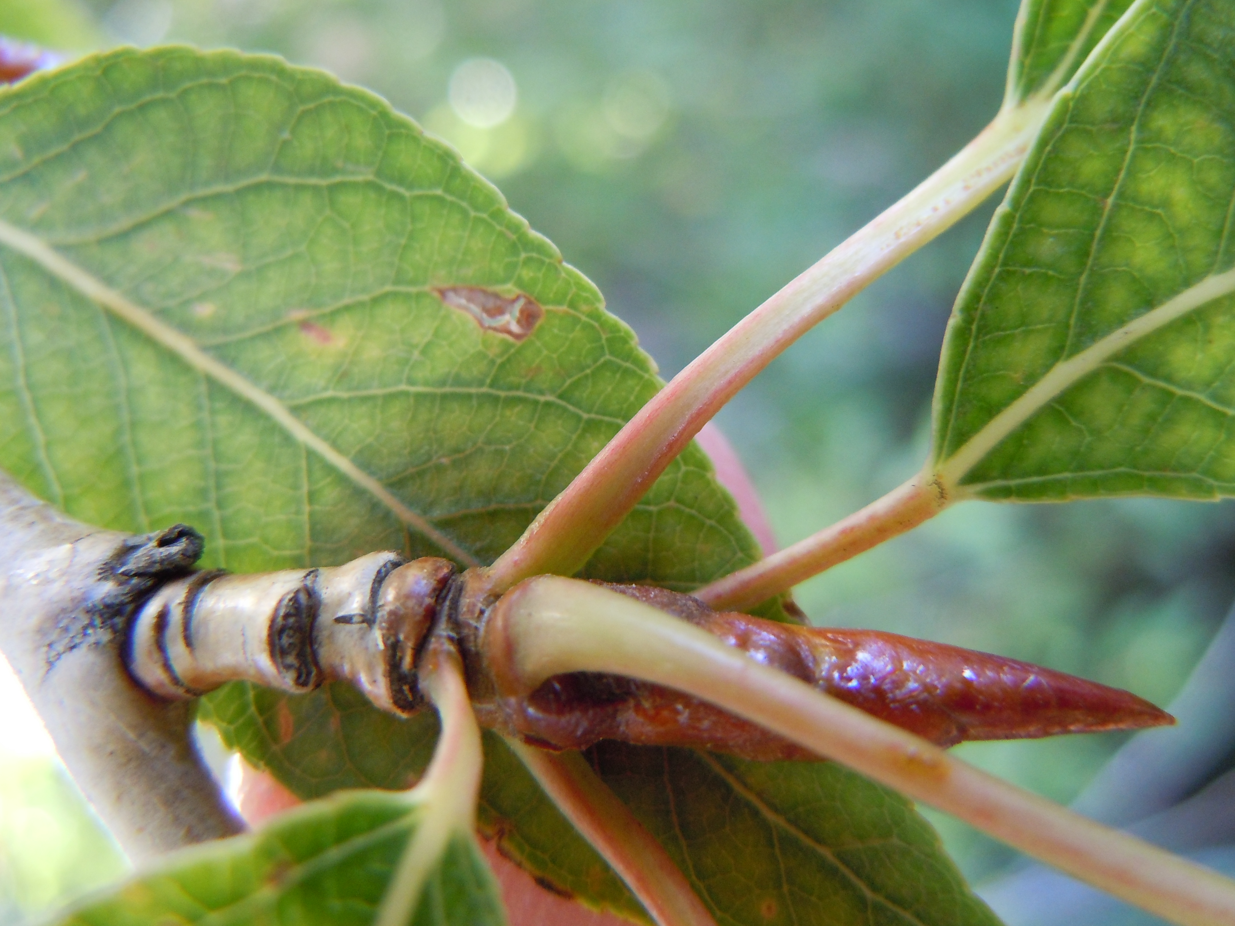 The petiole that is grooved along the upper side supposedly distinguishes this hybrid from Populus balsamifera.